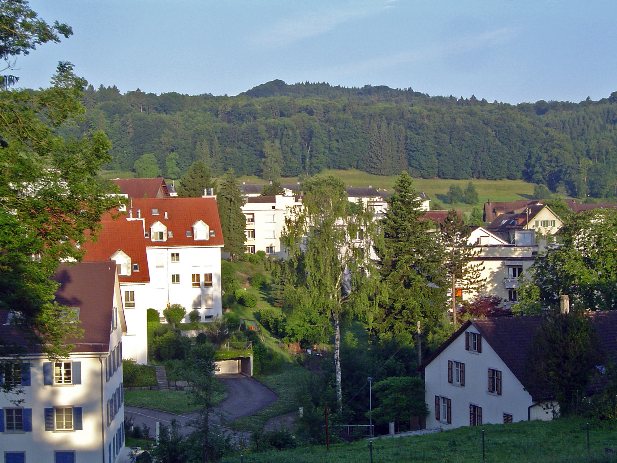 Mühlegut and Old Mill with Schäfliwiese - view from east [2008]